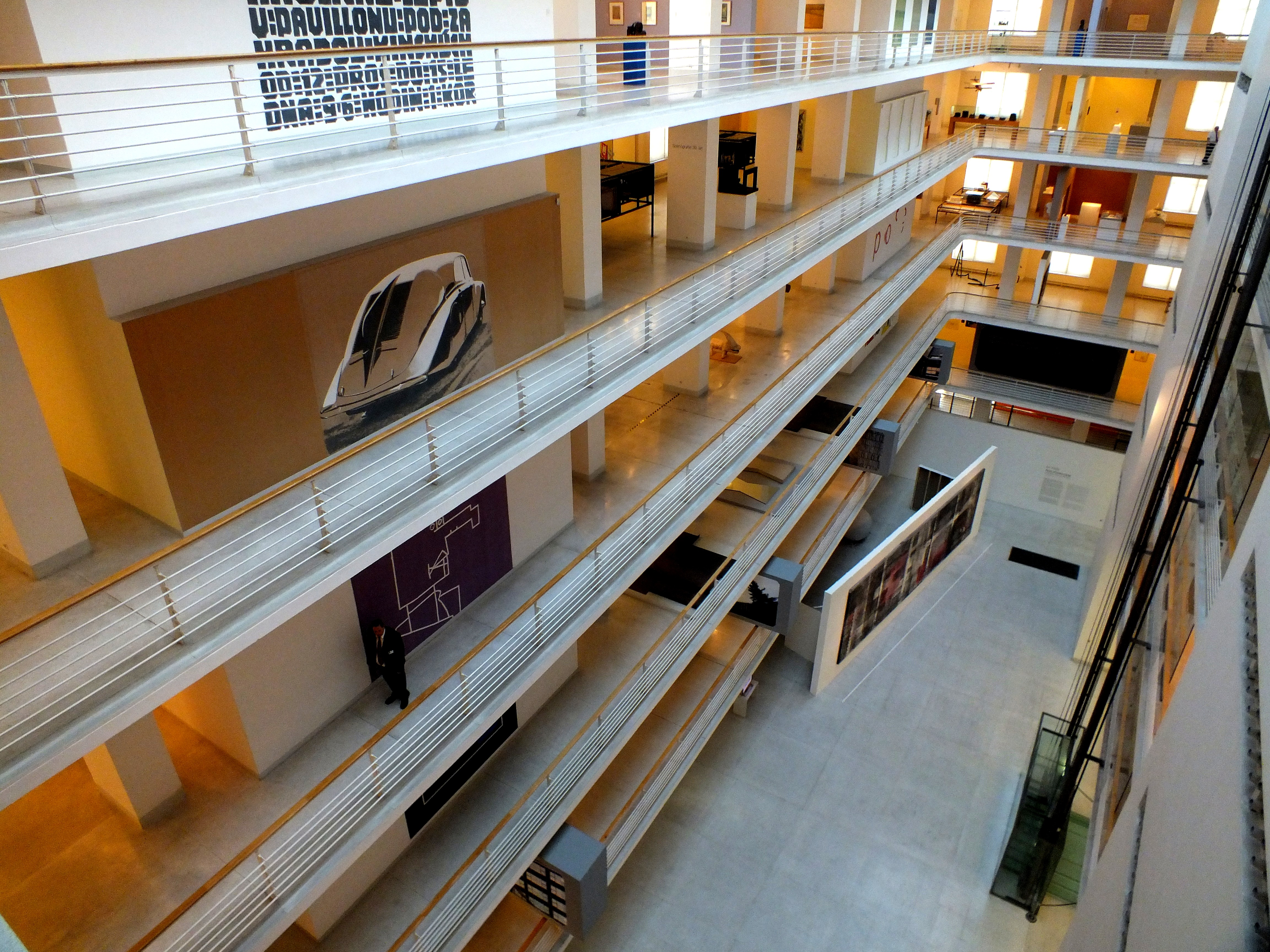 National Gallery Prague